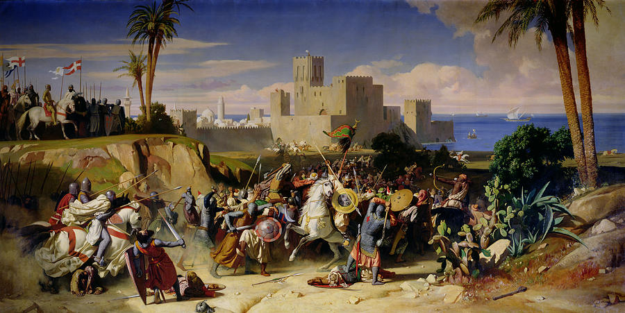 The re-taking of Beirut by the Crusaders lead by Amalric II of Jerusalem in 1197.